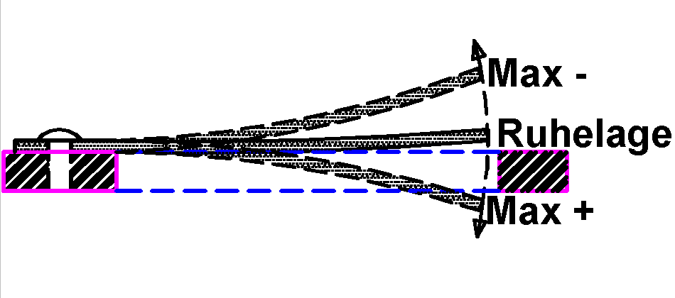 reed lengh crosssection